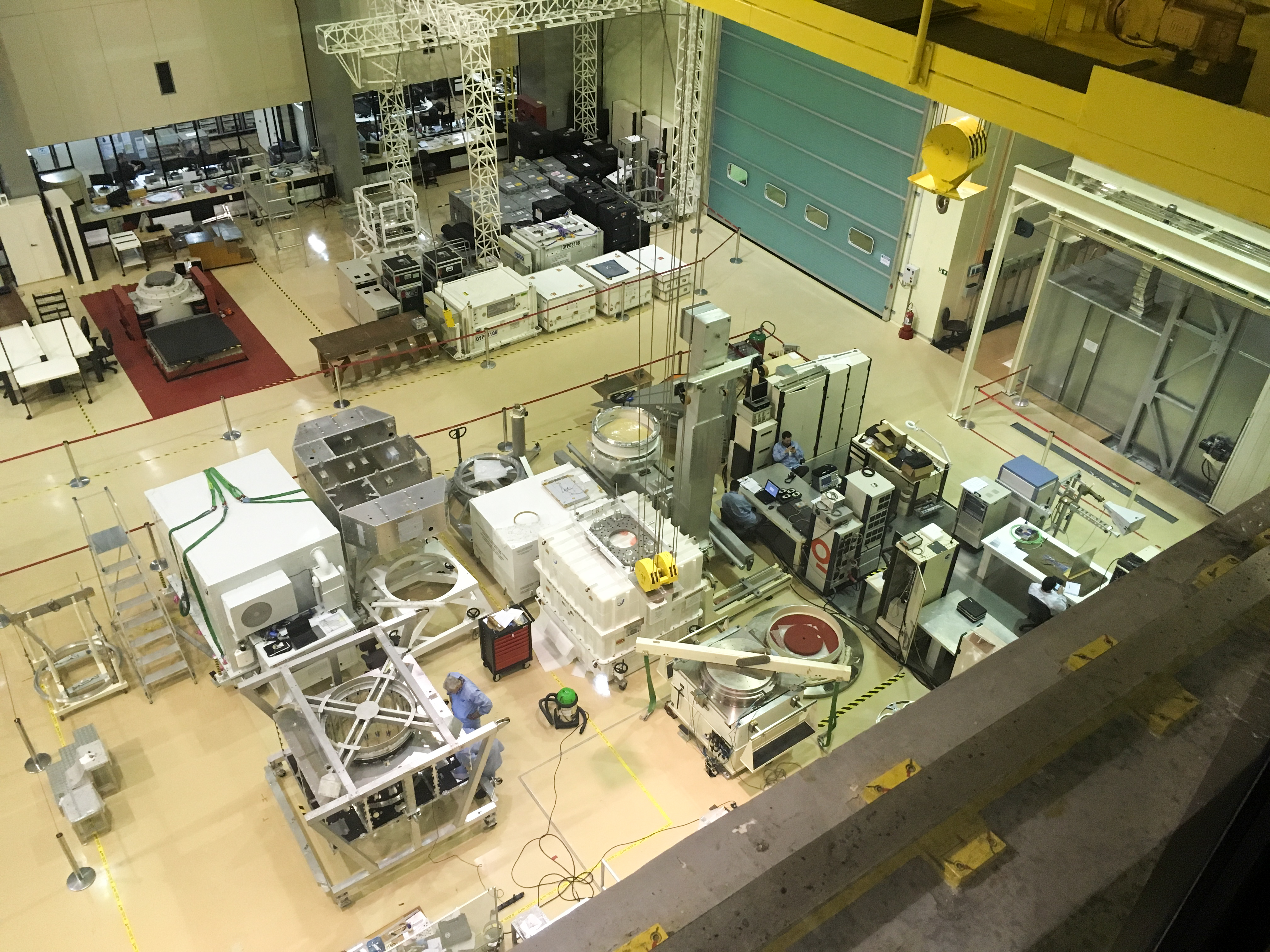 Facilities at INPE, São José dos Campos, Brazil.